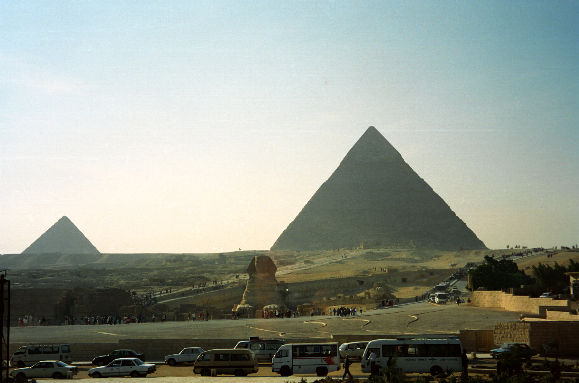 Great Pyramid of Giza